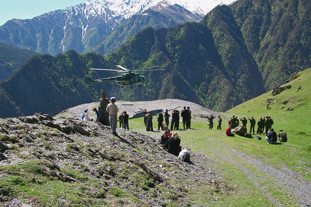 “Helicopter brings food to a border guard outpost”. A border guard outpost near Khushet, a Dagestani village in the North Caucasus.